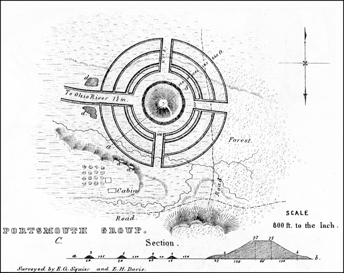 A map of the Portsmouth Earthworks, Group C, a Hopewellculture series of mounds located in Greenup County, Kentucky. It is part of a larger earthworks complex, the Portsmouth Earthworks, located across the Ohio River in Portsmouth, Ohio. It is also known as the Biggs Site.